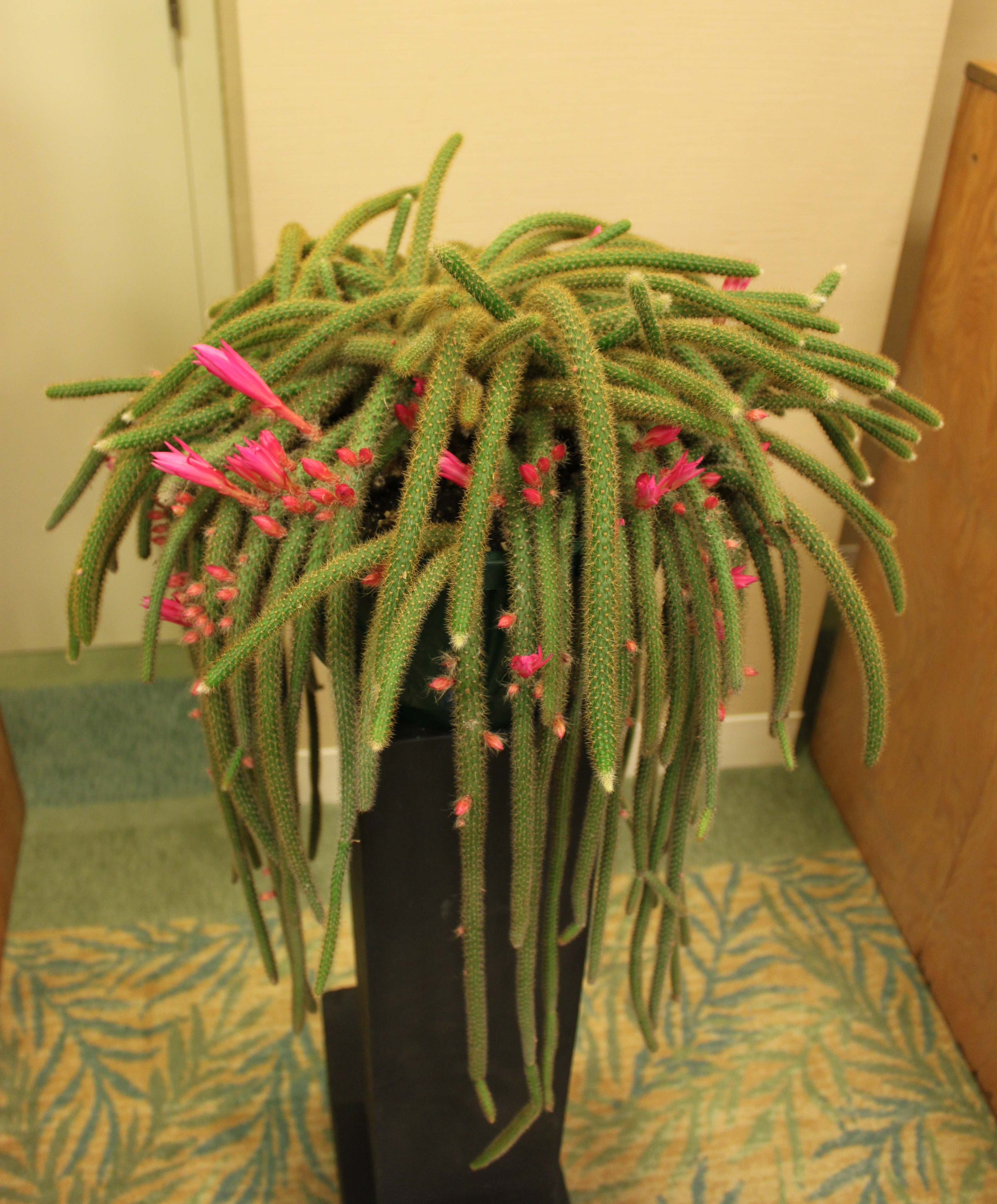 A Disocactus flagelliformis en plant, commonly knows as the Rattail Cactus taken at the 2010 New England Flower show in Boston, Massachusetts.